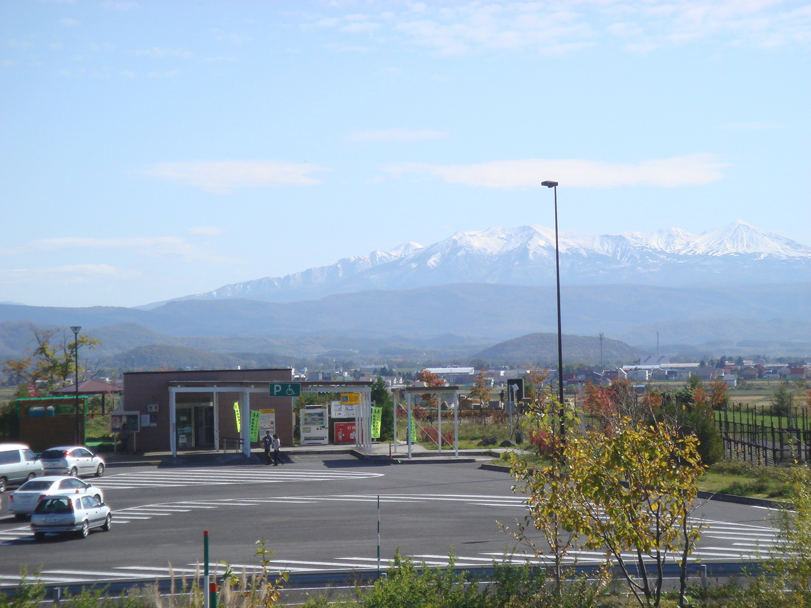 Hokkaidō Expressway Pippu-Taisetsu Parking Area for Sapporo and Daisetsuzan Volcanic Group